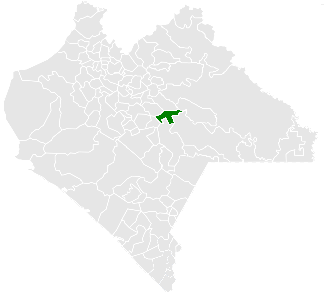 Map of the Municipalty of Chanal in the State of Chiapas, México.